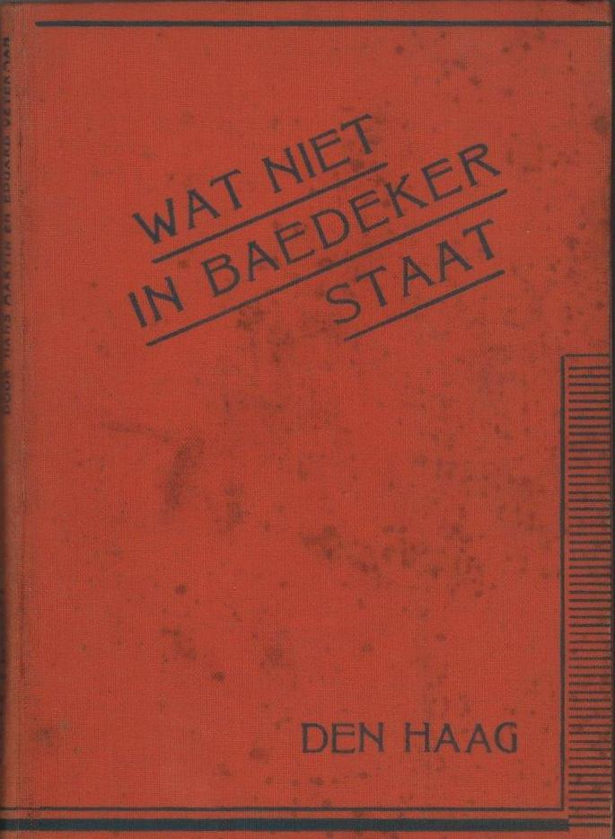 Front cover of "Het boek van Den Haag" (clothbound), 1st edition (1931), in the series "Wat niet in Baedeker staat"